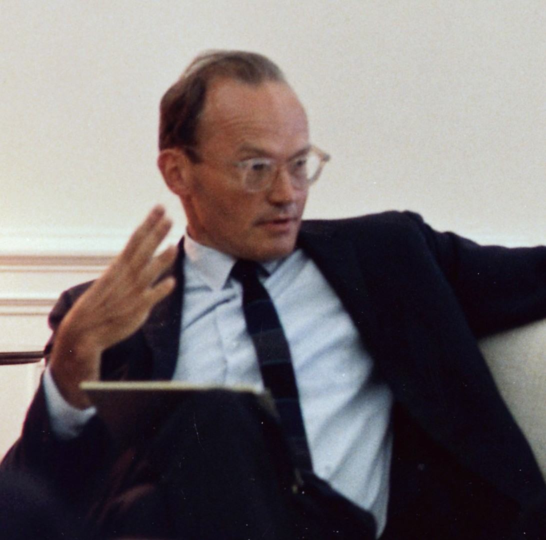 McGeorge Bundy at meeting in the Oval Office